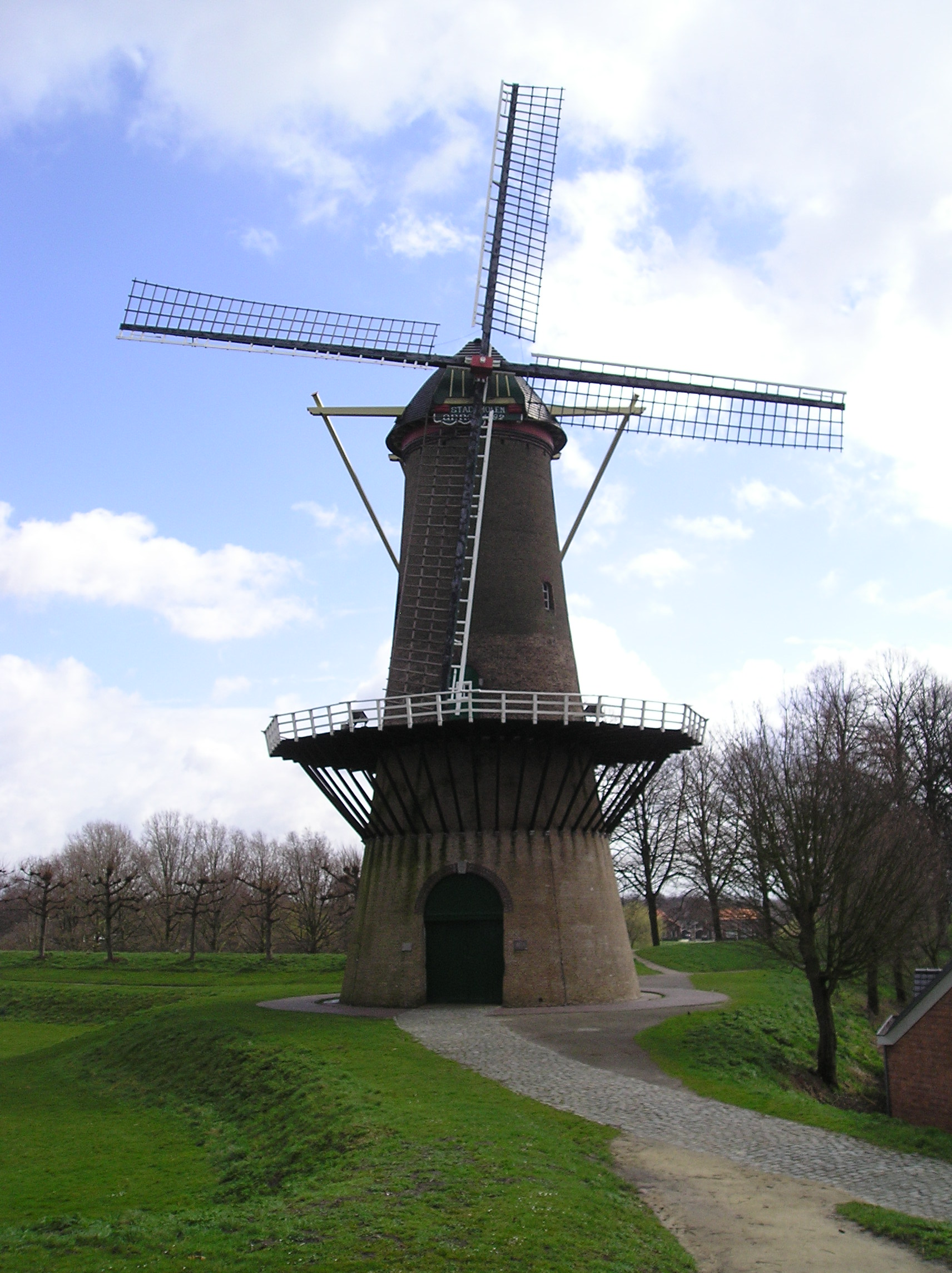 Old windmill in Hulst, Netherlands.